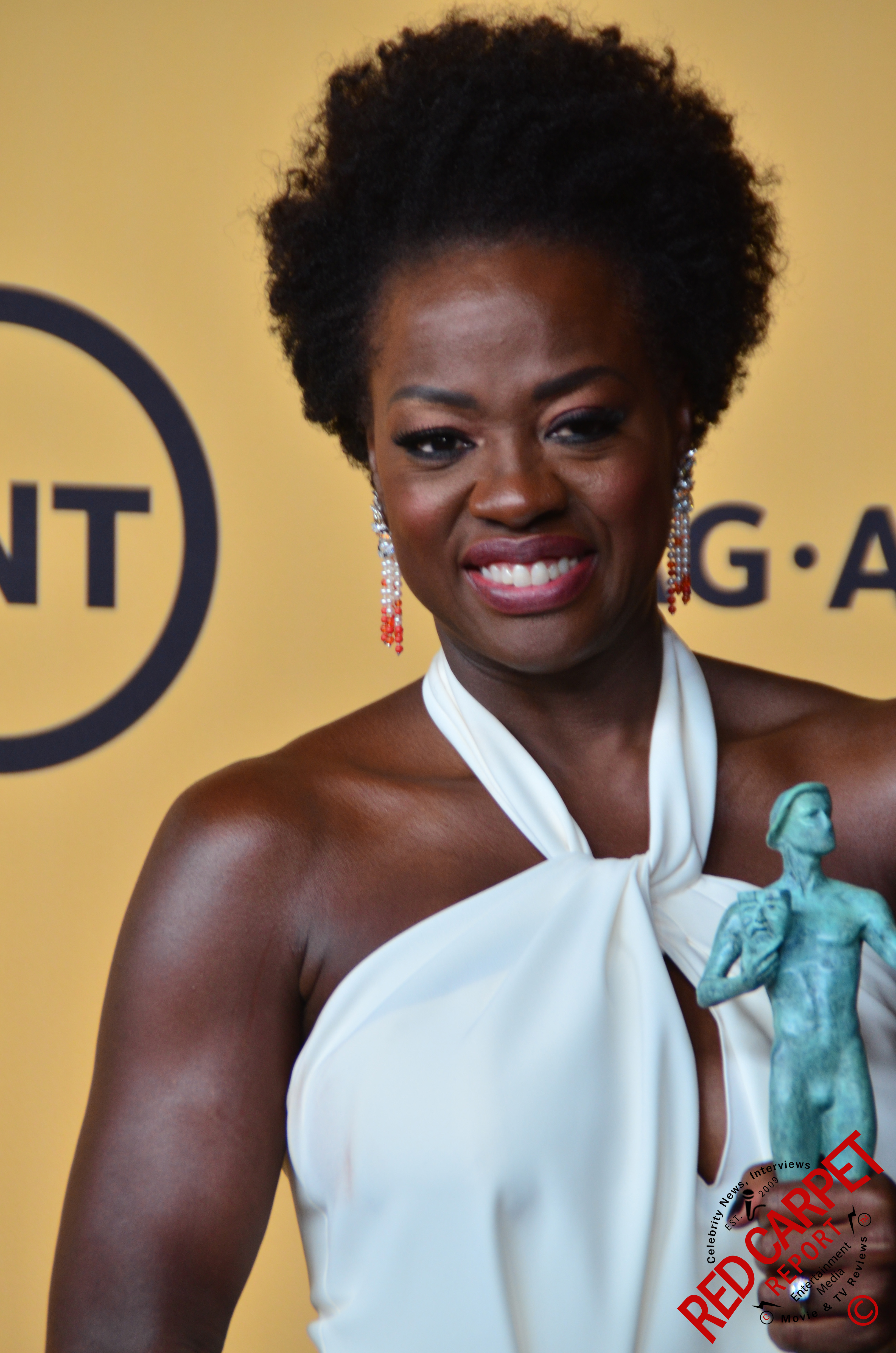 Viola Davis at 21st Annual Screen Actors Guild Awards